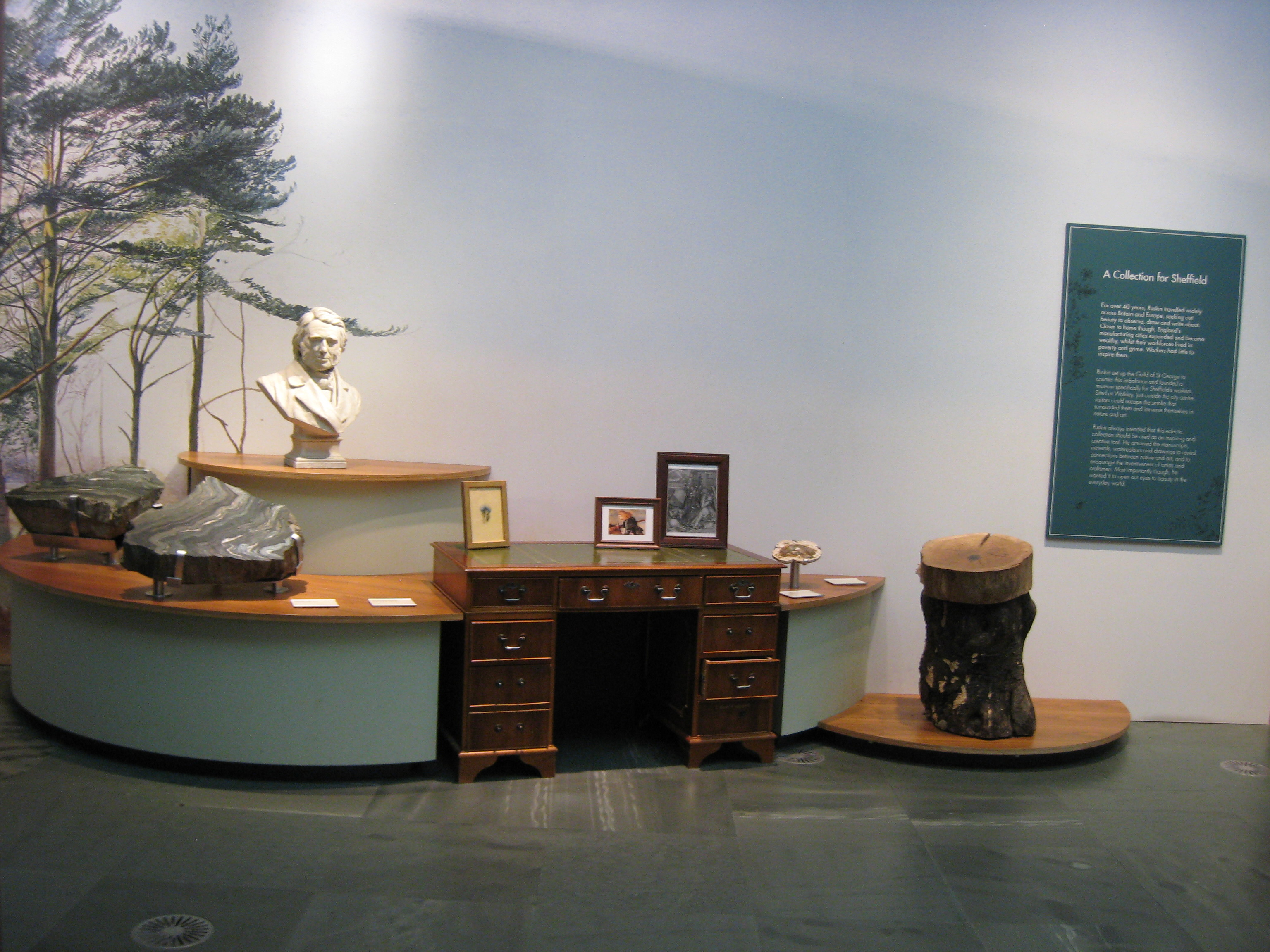 Part of the John Ruskin collection, at the Millennium Gallery, Sheffield. including a bust of Ruskin